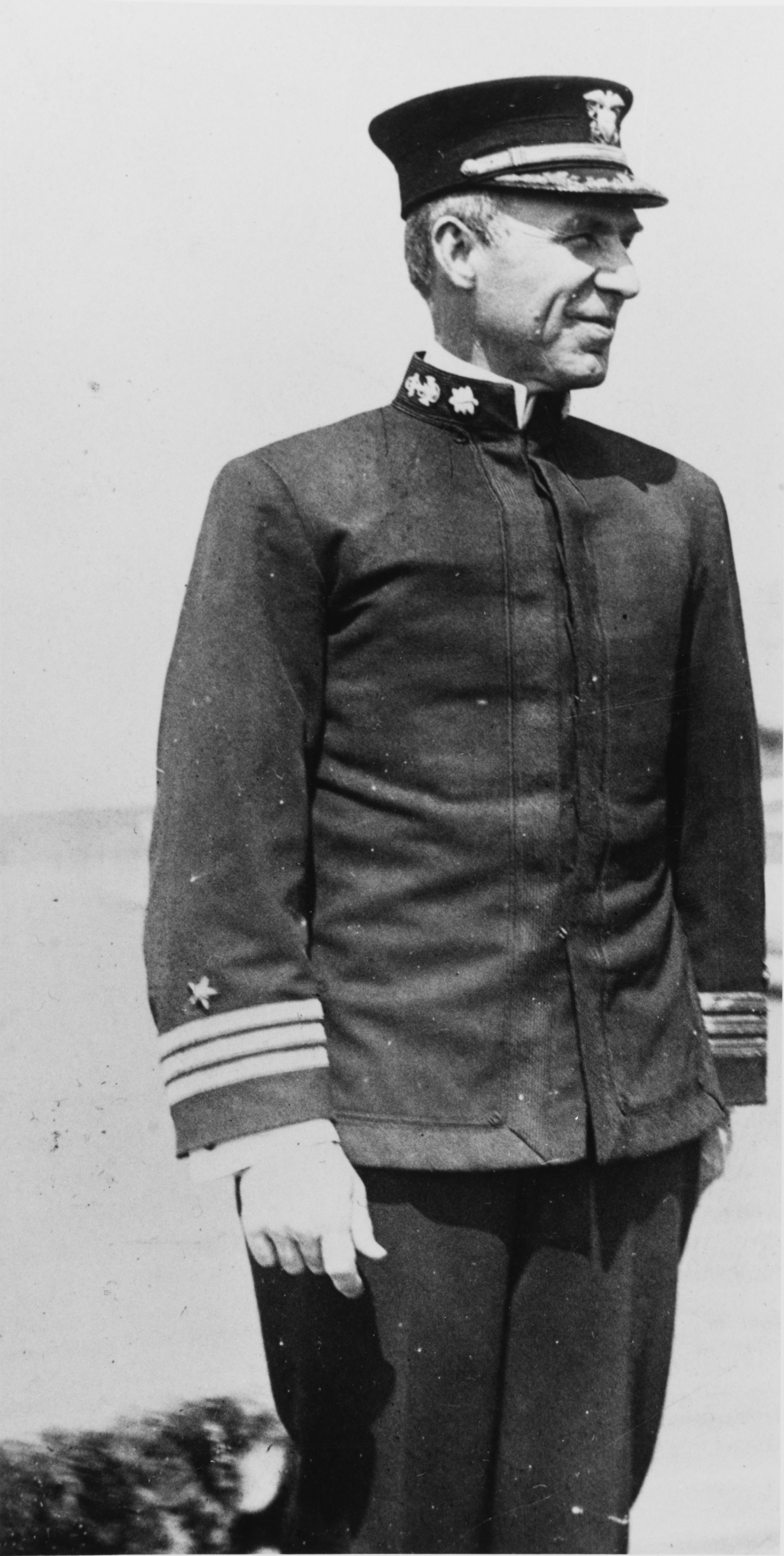 Captain Edward H. Watson, US Navy, photographed as a commander in 1915